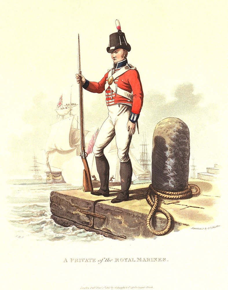 A Private of the Royal Marines. (uniform)